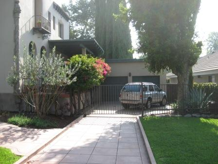 Upton Sinclair House — 464 Myrtle Ave., Monrovia, California. Side of house showing garage.